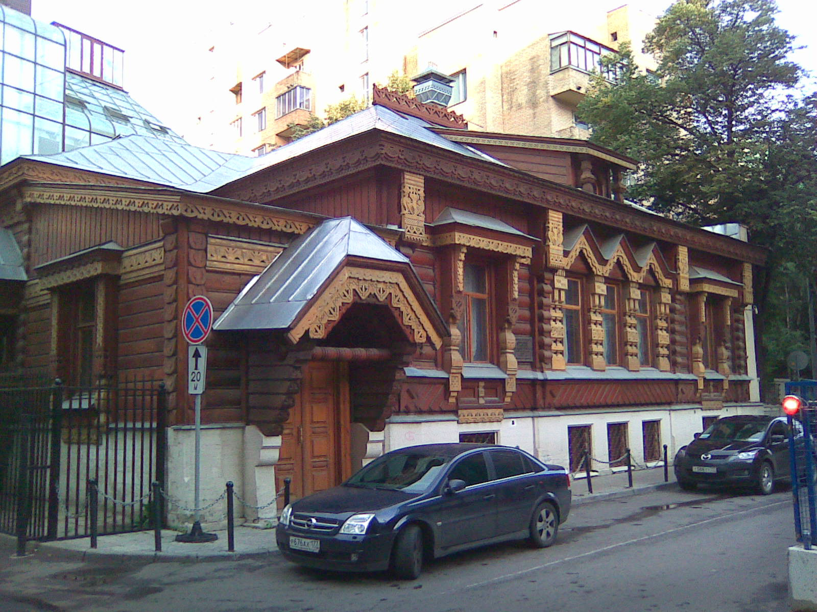 Dom Porohovschikova (Porohovschikov House) in Moscow